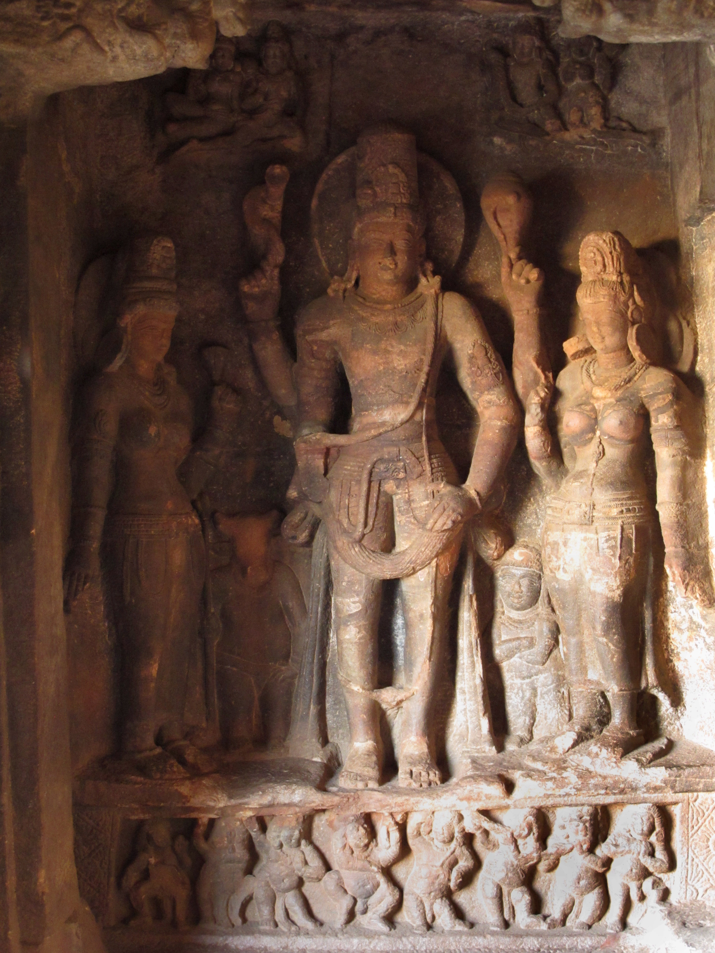 Harihara. Cave 1. Badami